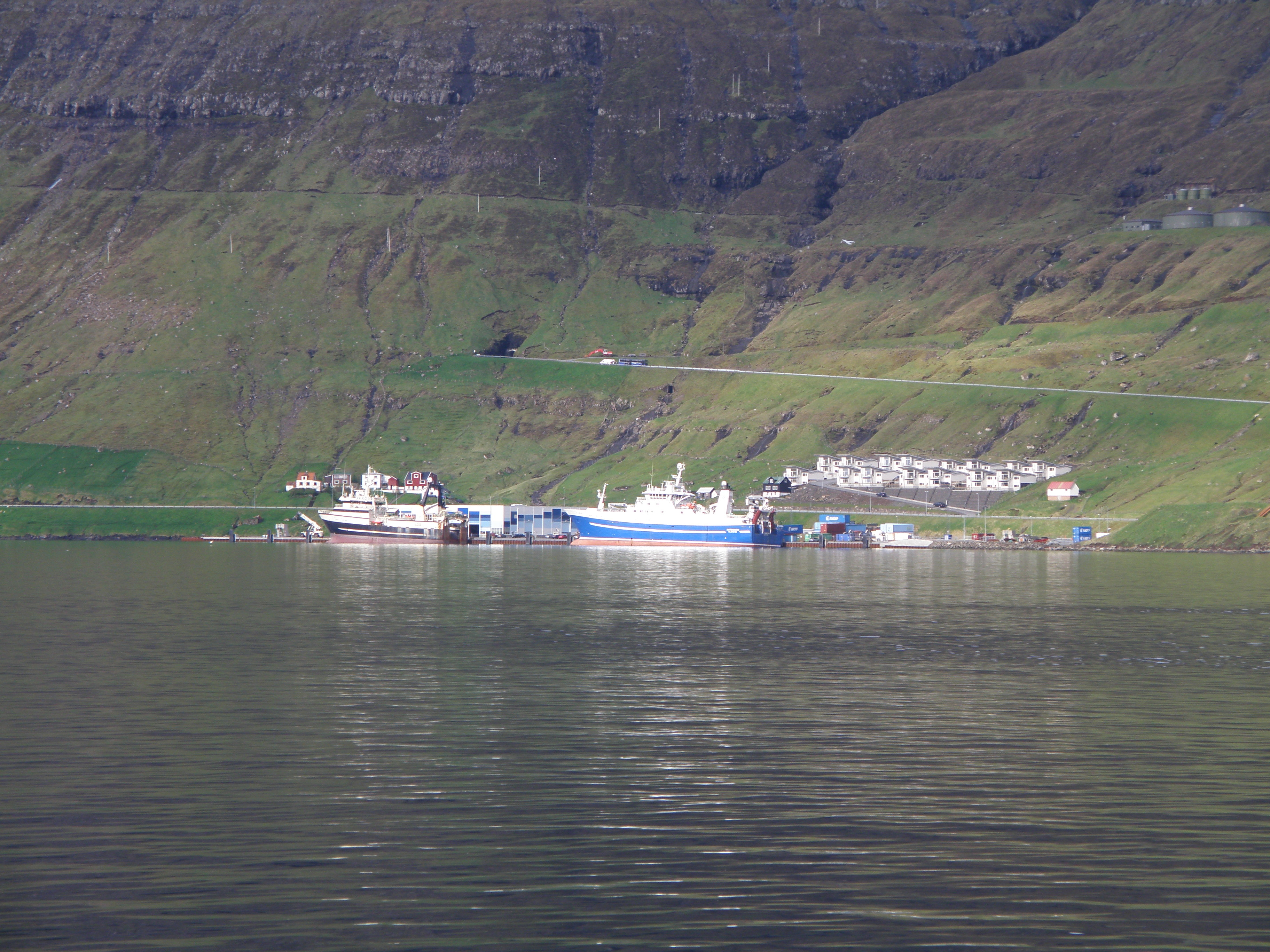 The village Ánir and the port Norðhavn seen from a boat on the sea in May 2013. The population of Ánir is 55 as of 1 January 2013, it was 16 in January 2007. The increasing number of inhabitants is because of the new appartments which are built above the harbour of Norðhavn. In summertime cruis ships embark at this harbour. The ships on this photo are Faroese trawlers. Ánir is located 3 km north of Klaksvík, which is the capital of the Northern Islands, a group of islands in the north-east part of the Faroes.